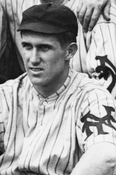 Ted Goulait